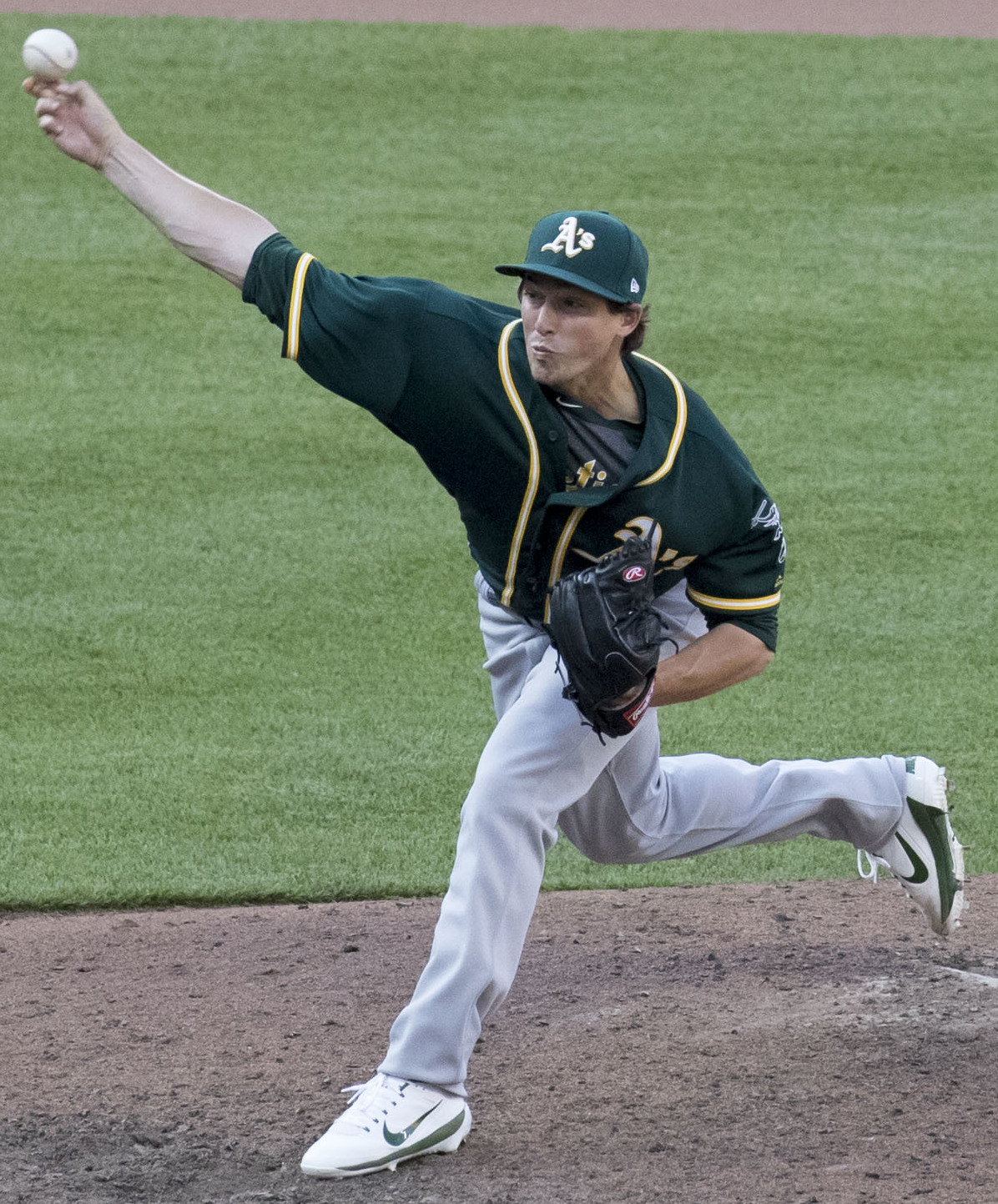 A's at Orioles 8/23/17